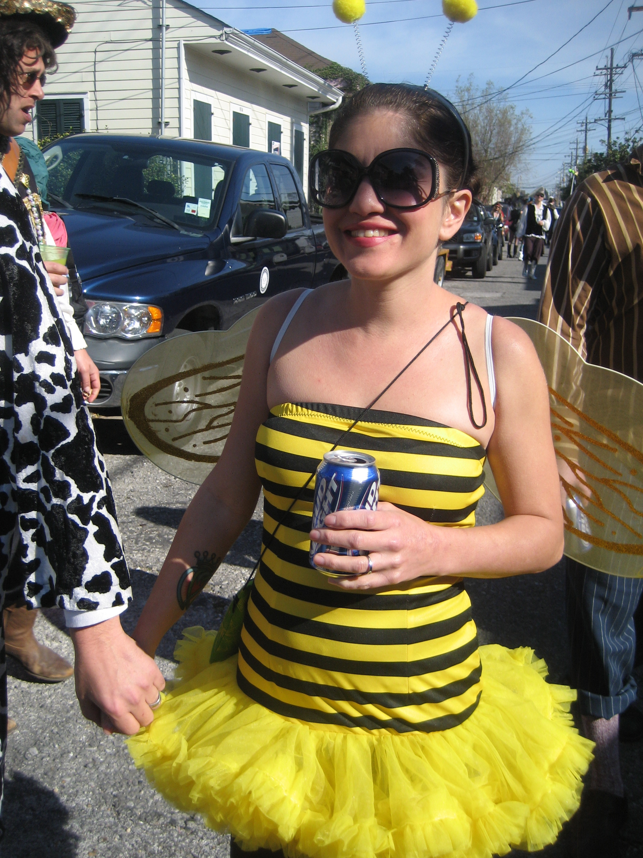 Mardi Gras Day revelry in New Orleans